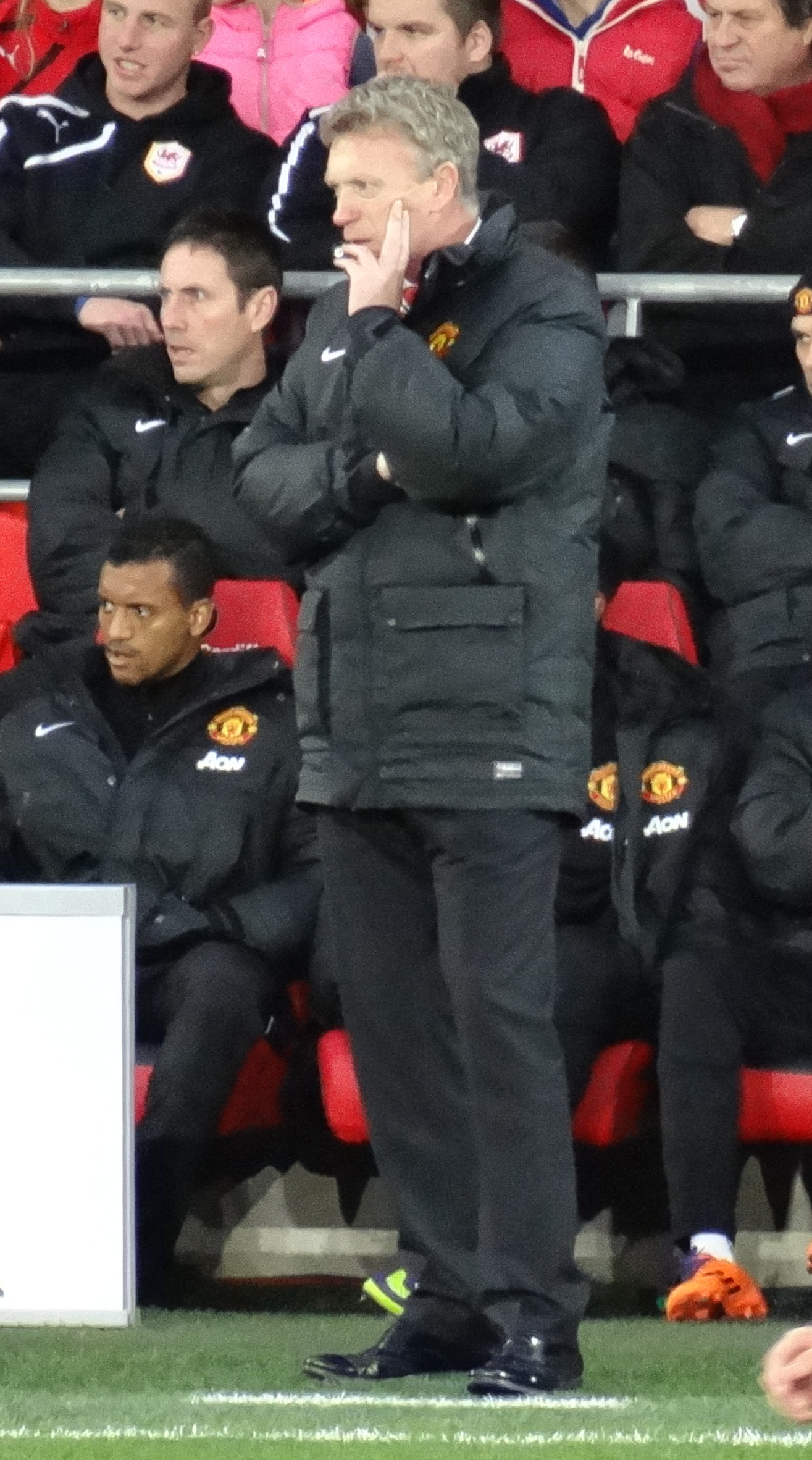 David Moyes as a Manchester United coach in 2013.